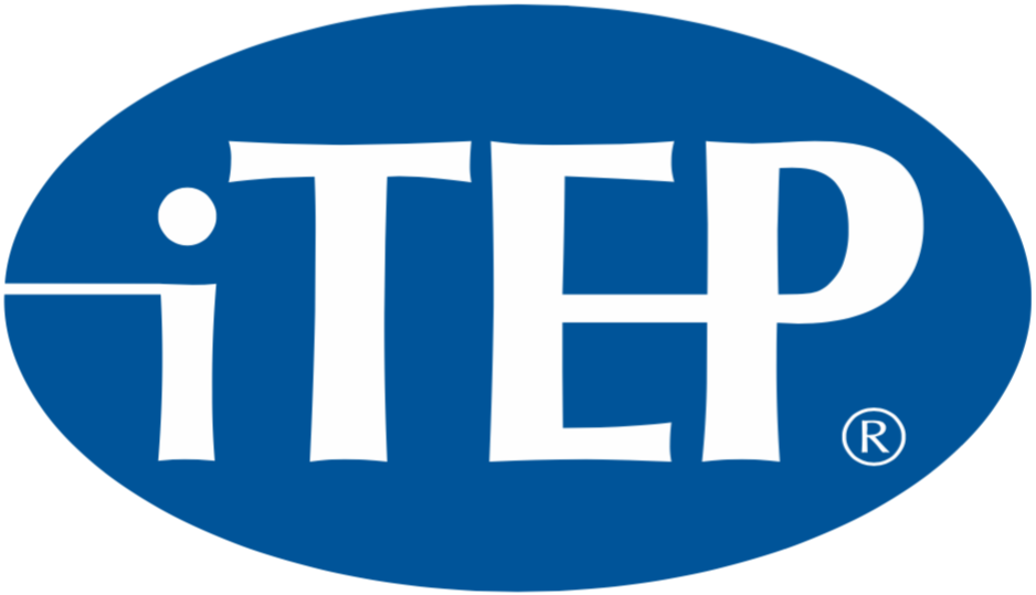 International Test of English Proficiency logo.